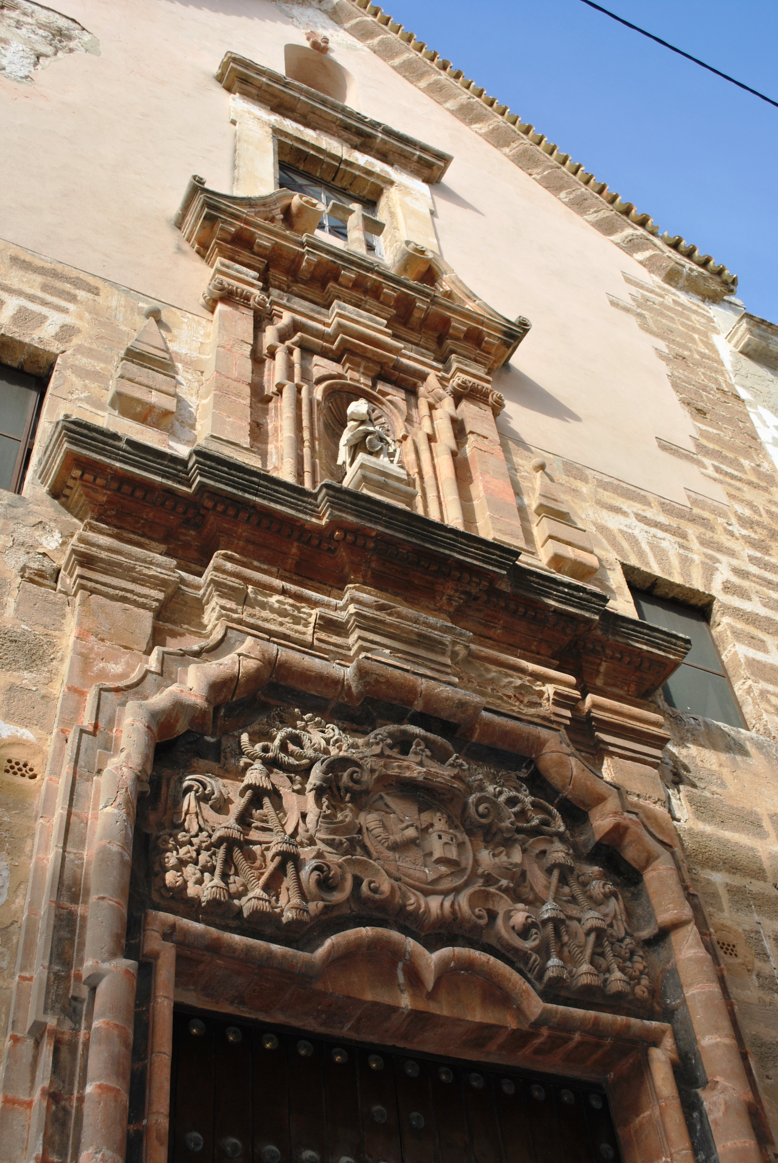 Iglesia de San Lorenzo Mártir (Cádiz)